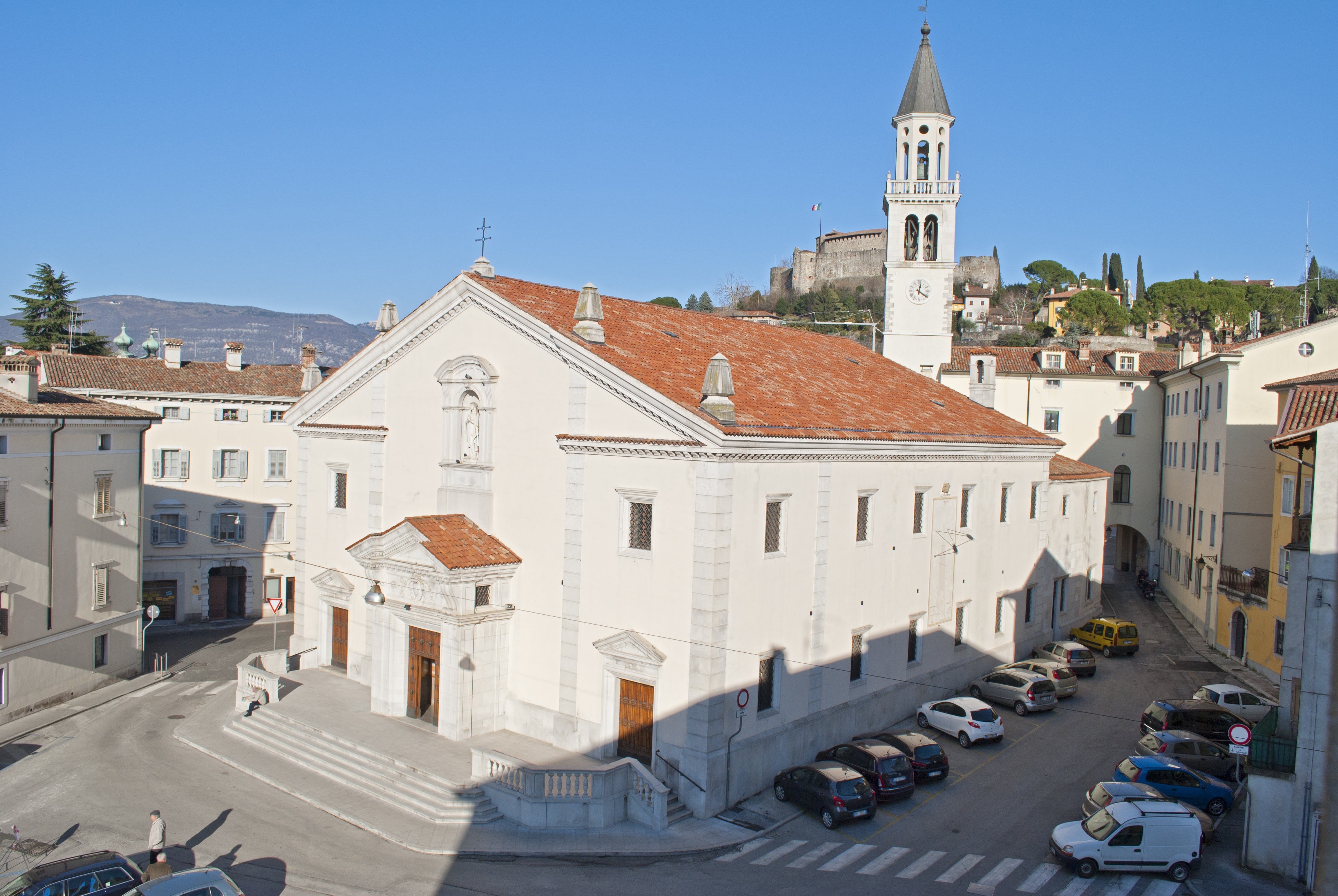 The Duomo of Gorizia, Italy; view of the facade.